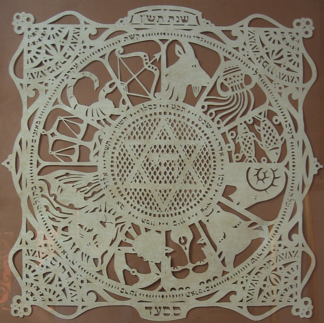 Zodiac Paper cut created in 1990 Size: 46X46 cm Copyright: Sabina Saad 2008